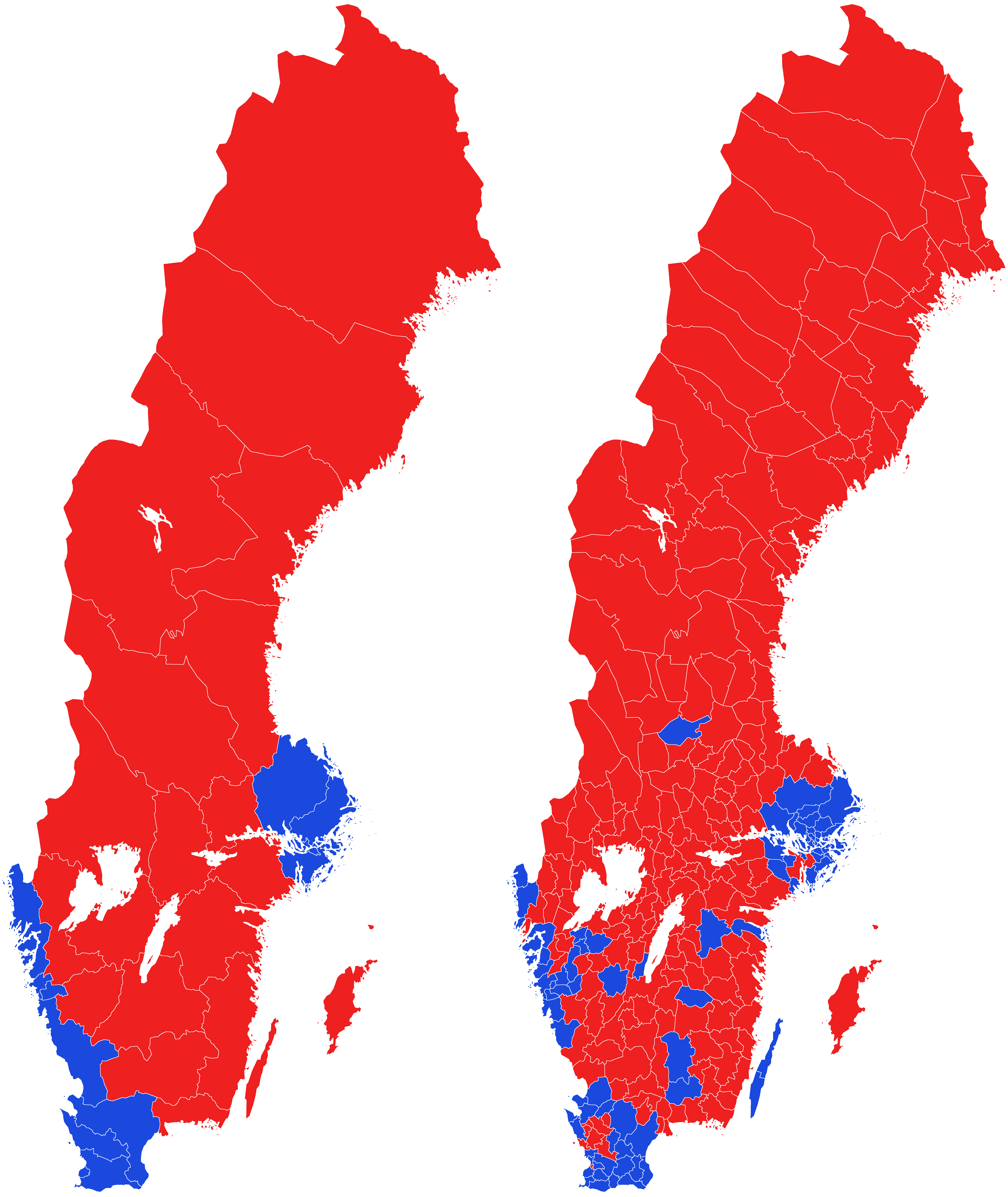 Map showing the most voted party in 2010 election for the Riksdag by district (left) and municipality (right)